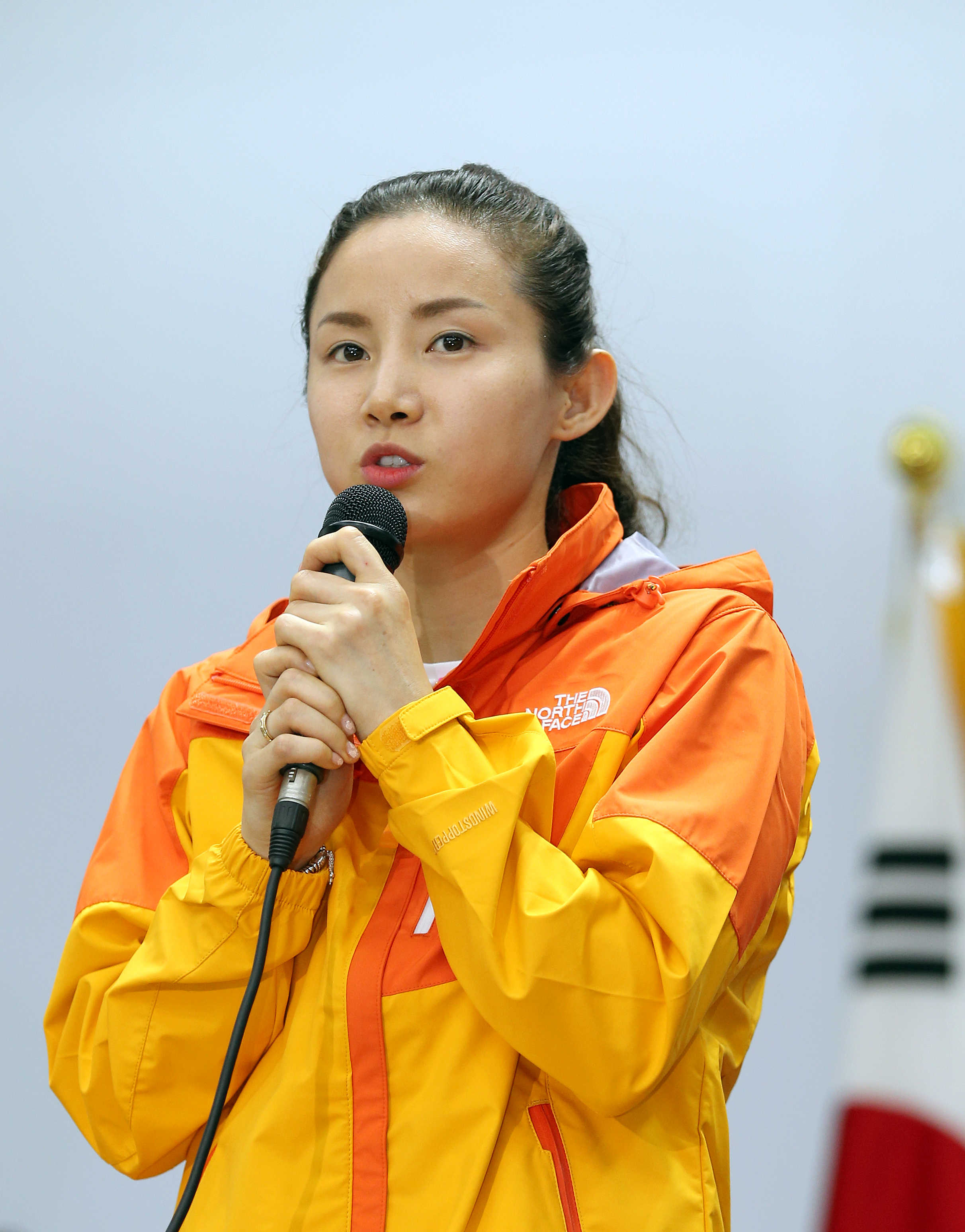 17th Asian Games Incheon 2014 D-30 Joint Press Conference of Team Korea for ‘17th Asian Games Incheon 2014’ Fencing Nam Hyun-Hee August 20, 2014 Korea National Training Center, Gongneung-dong, Nowon-gu